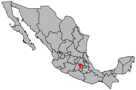 Locator map of Cuautitlan Izcalli, México, Mexico